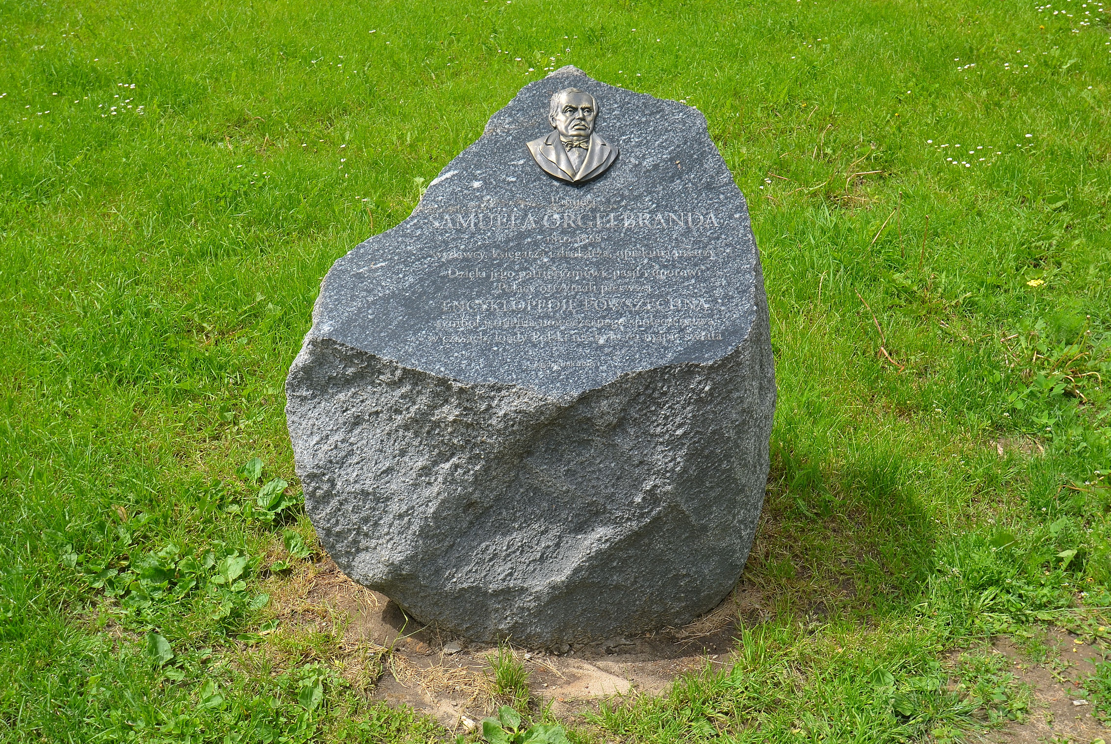 Stone in memory of Samuel Orgelbrand in Orgelbrand Square in Warsaw